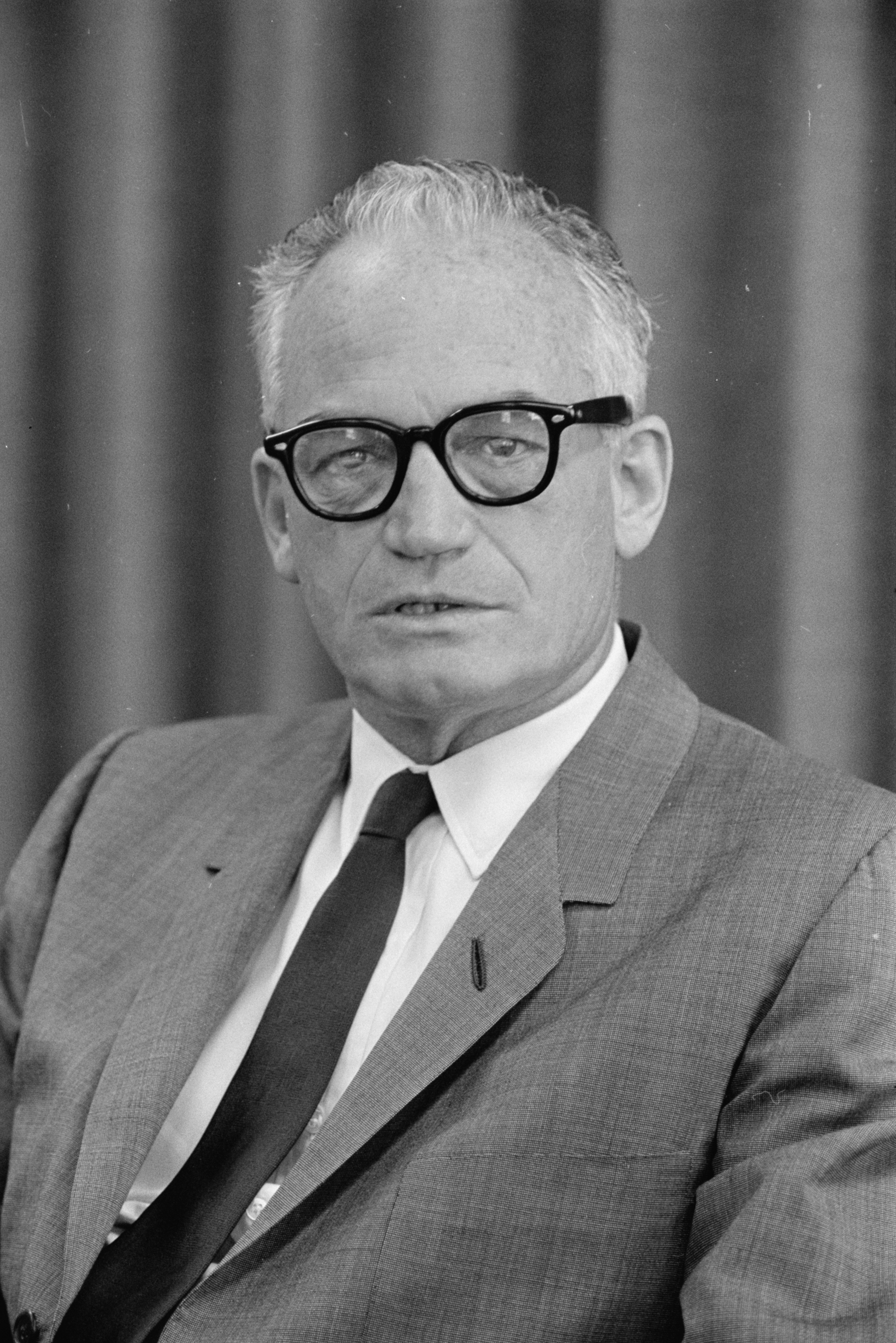 Photograph shows head-and-shoulders portrait of Goldwater.